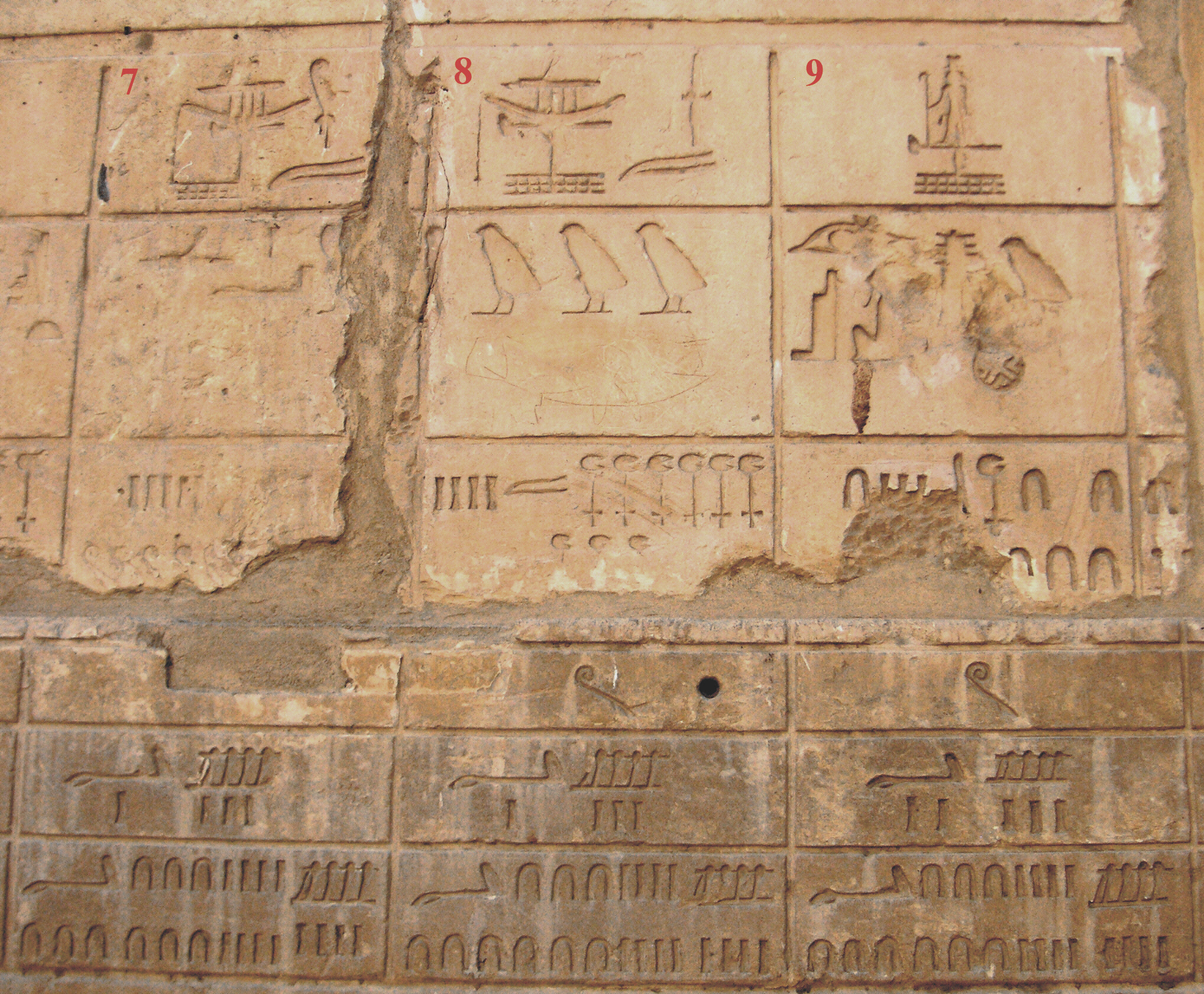 Nome 7 to 9 of Lower Egypt (list of Sesostris I.)